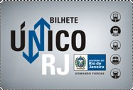 Bilhete Unico RJ